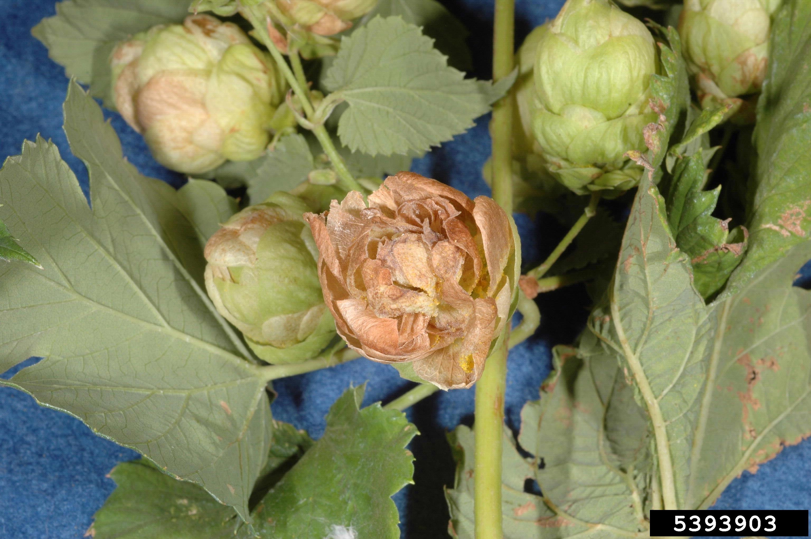 Symptoms